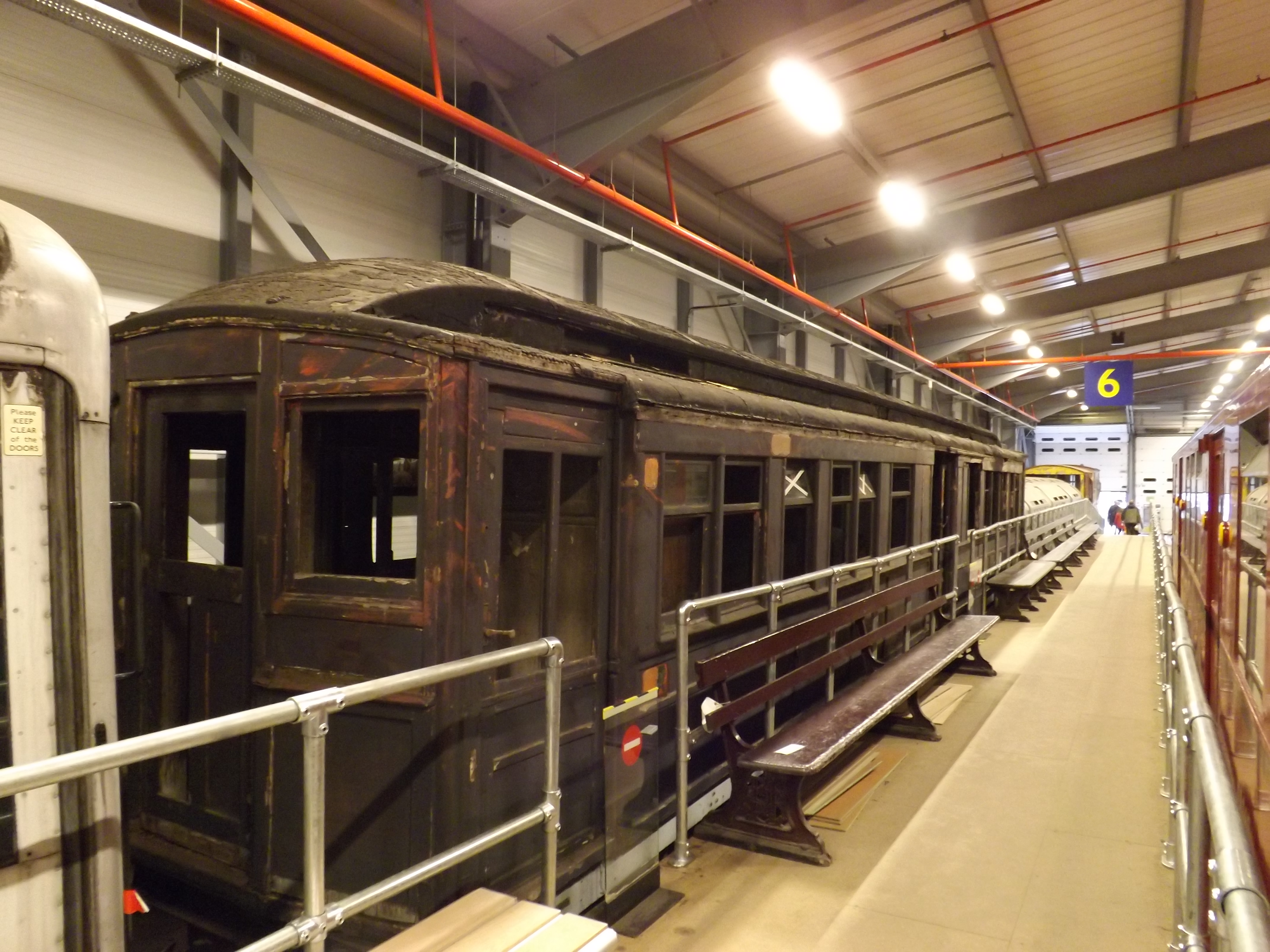 This is a trailer carriage built for the Metropolitan Railway's electric multiple units in 1904/5. It has been badly damaged by fire and is in store and the London Transport Museum's Acton Depot